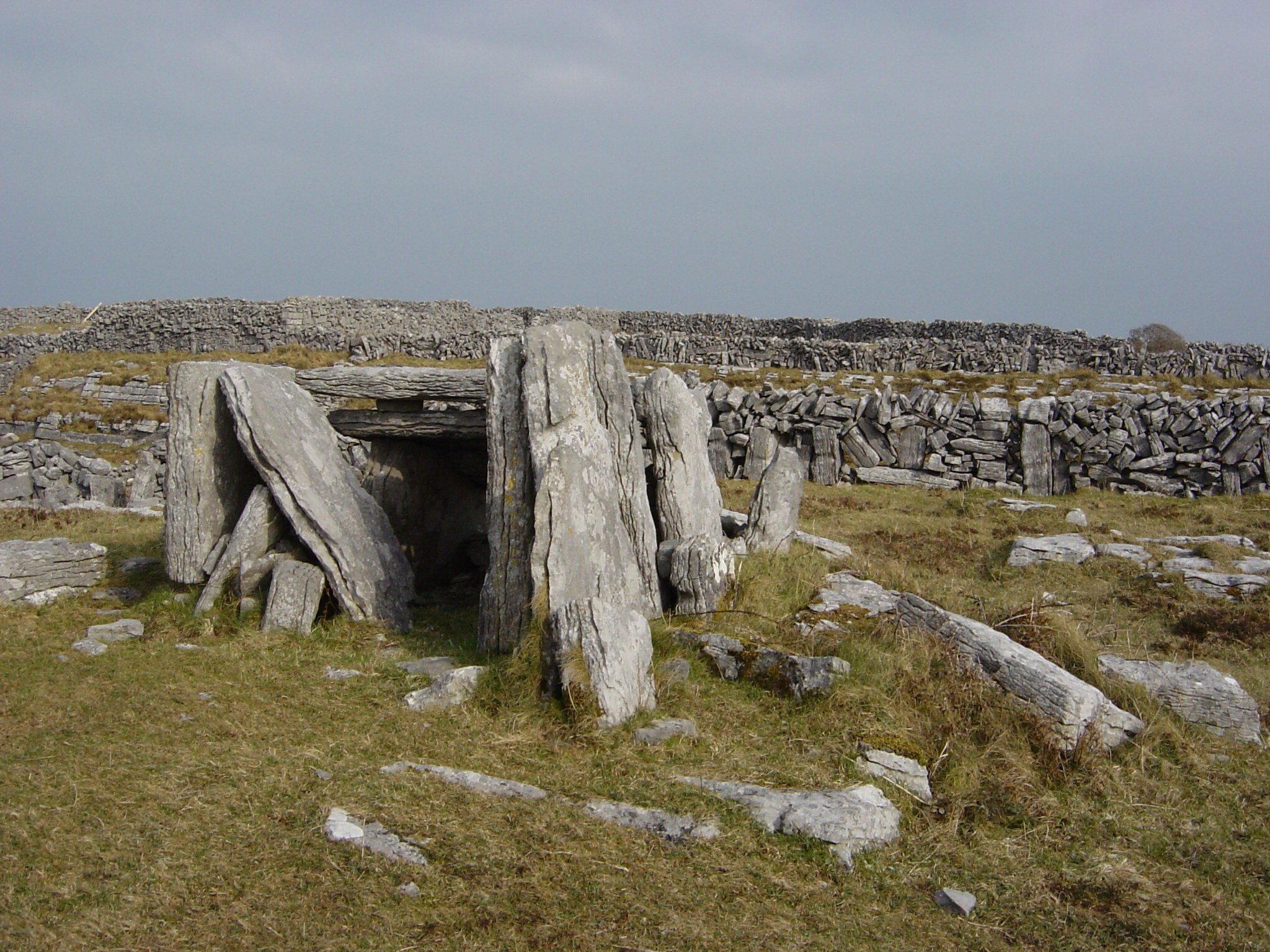 Wedge Tomb, Oghill